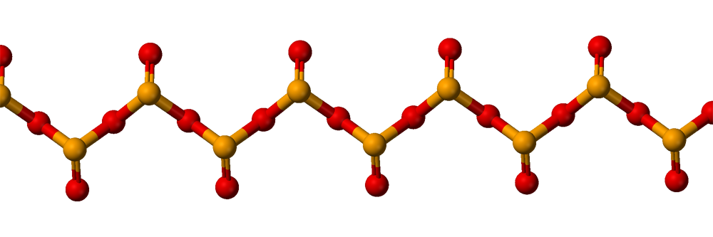 Ball-and-stick model of an [SeO2]n chain in crystalline selenium dioxide